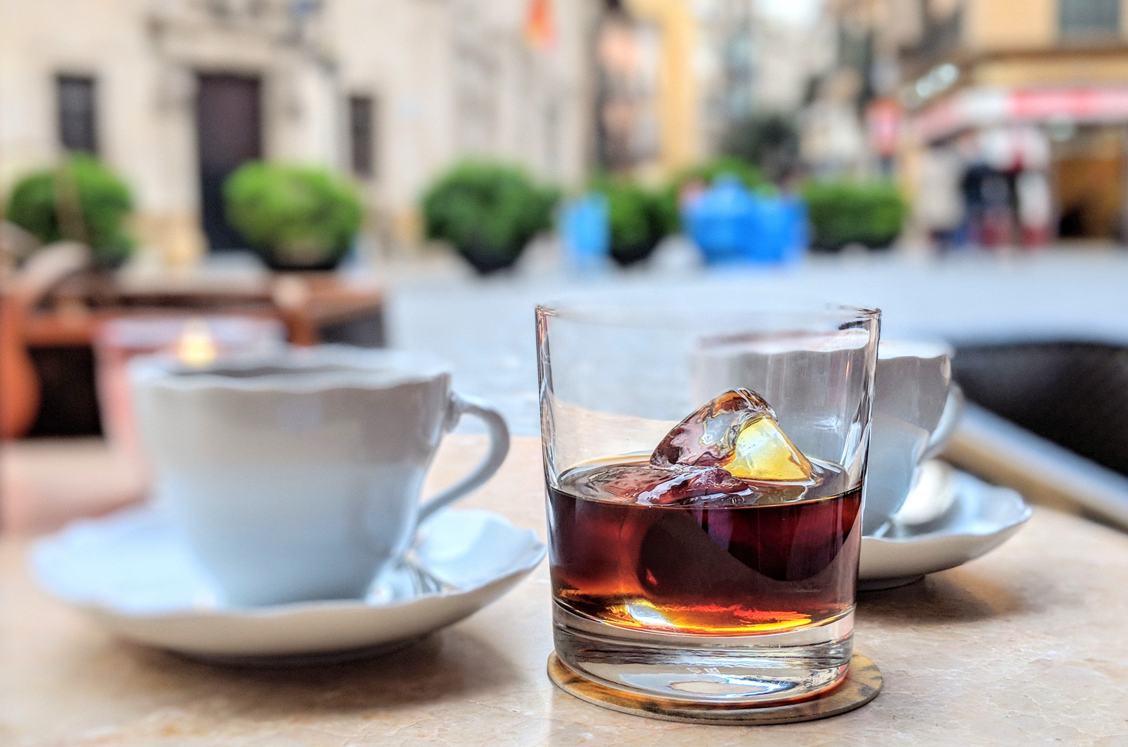 An Amaro bitter. Here served with ice and twist of lemon